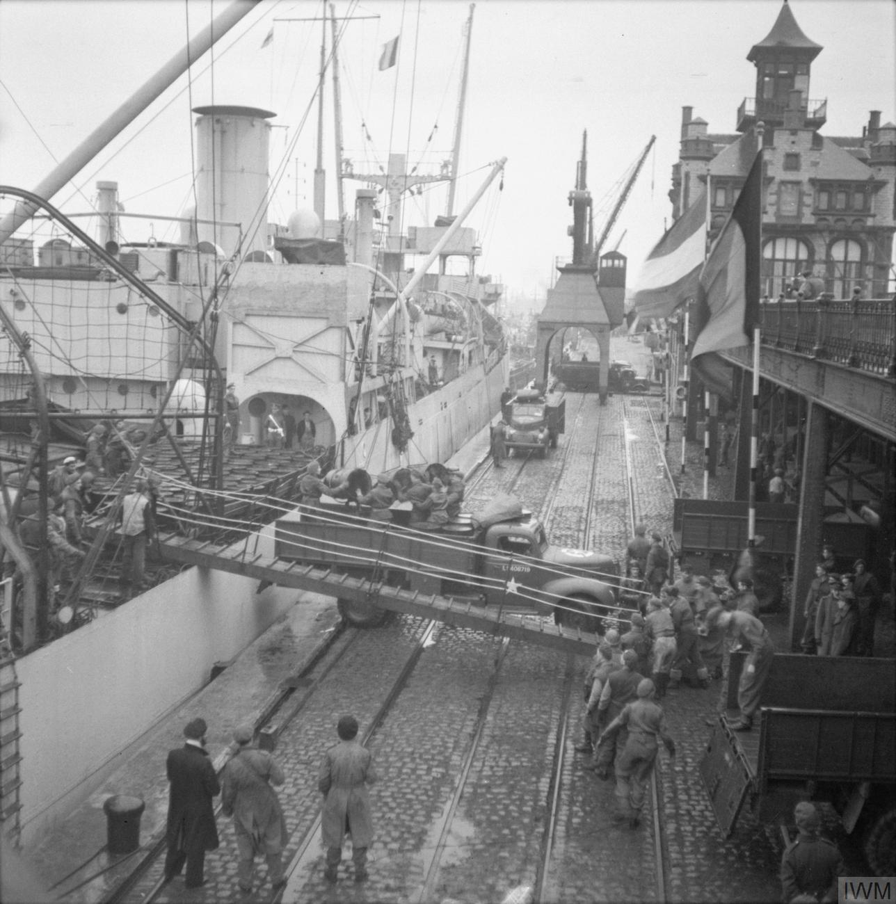 The British Army in North-west Europe 1944-45 Oil being unloaded from the SS 'Fort Cataraqui' in the port of Antwerp, 30 November 1944. This was the first ship to berth at the port following the opening of the Scheldt Estuary.